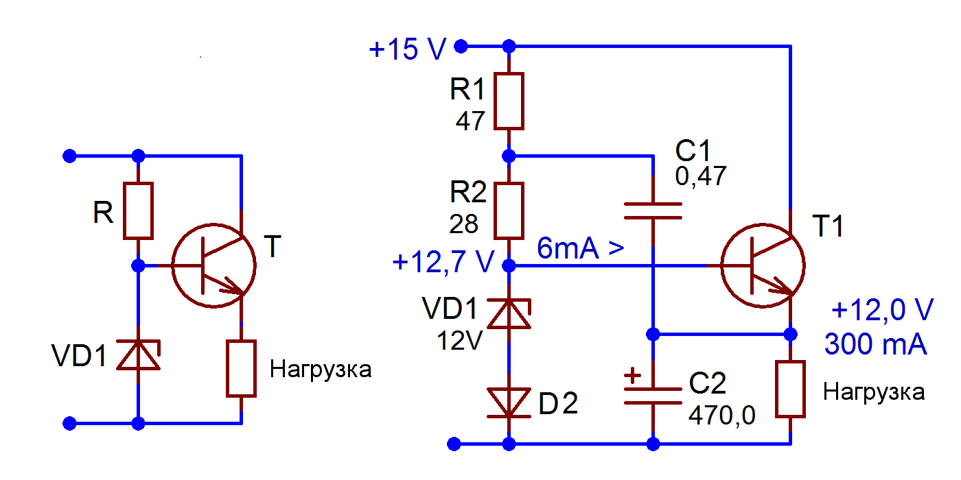 series zener principle + practical schematic - from Harrison, fig. 13.15